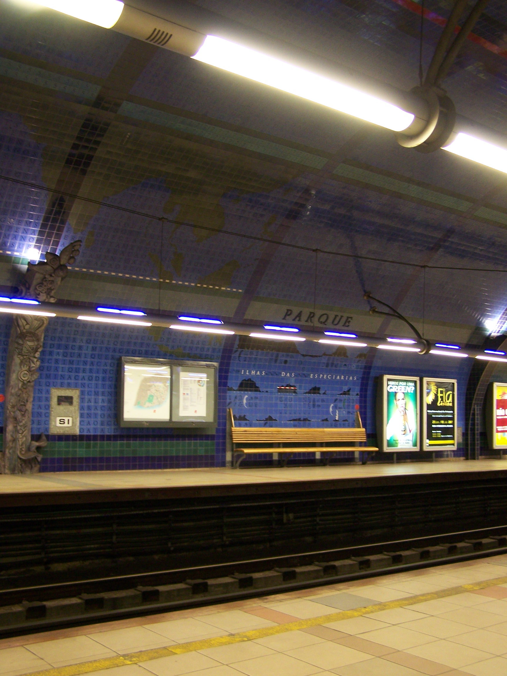 the Lisbon metro station Parque, blue line